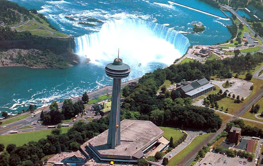 Spectacular view of the Canadian Horseshoe Falls from the Skylon Tower